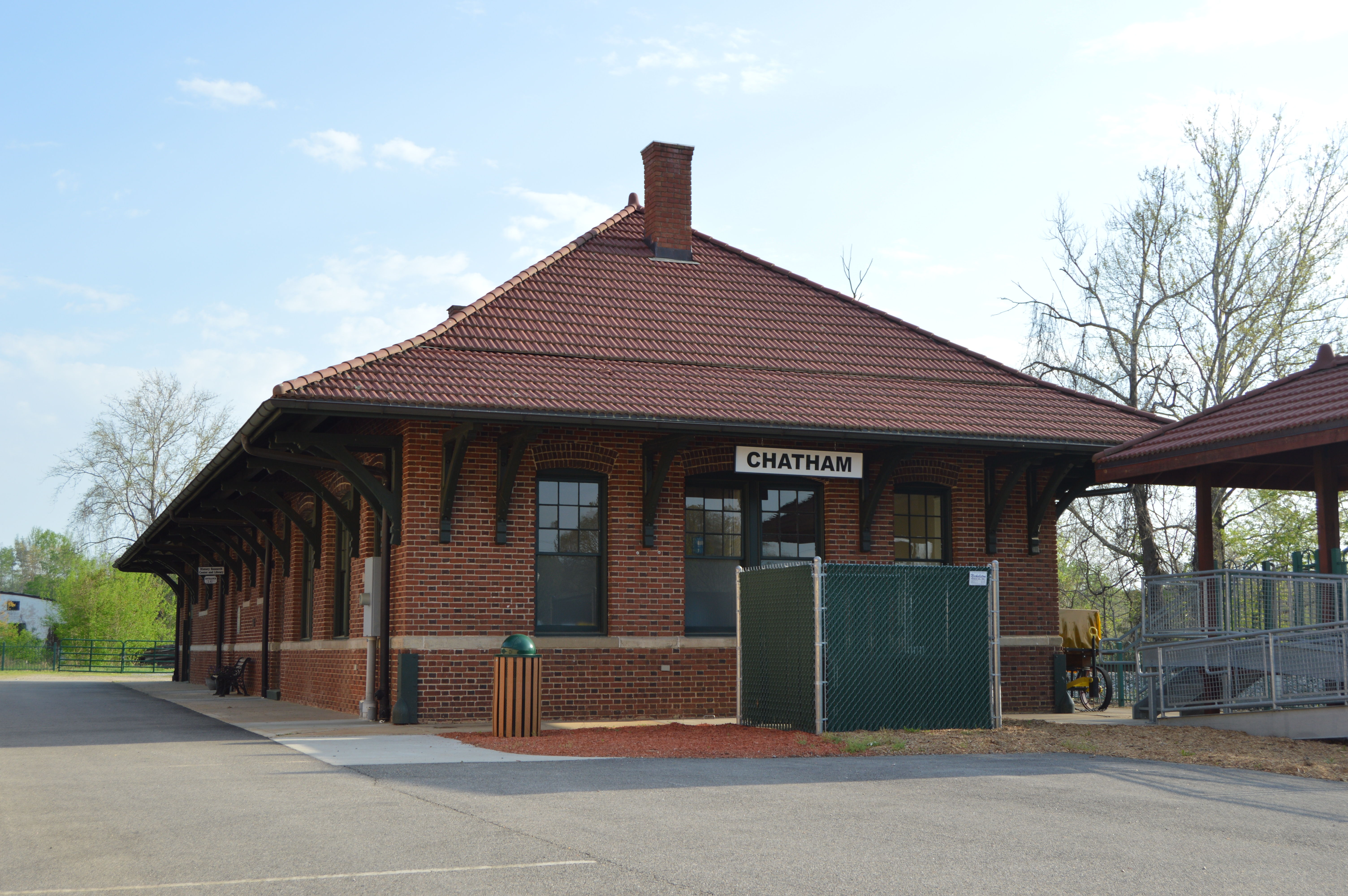 Northern end of the Chatham Southern Railway Depot, located on Collie Street in Chatham, Virginia, United States. Built in 1919, it is listed on the National Register of Historic Places in 1996.